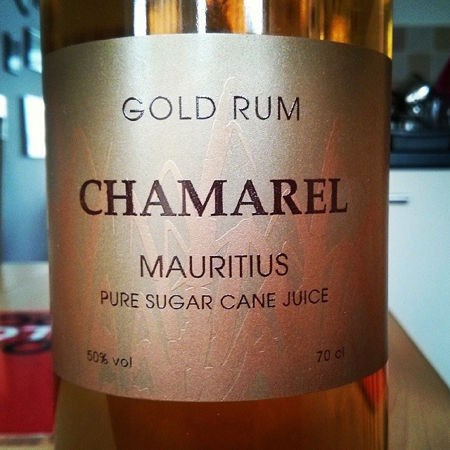 Parents bought us this great looking rum from #Mauritius, can't wait to crack it open! #chamarel #50percent